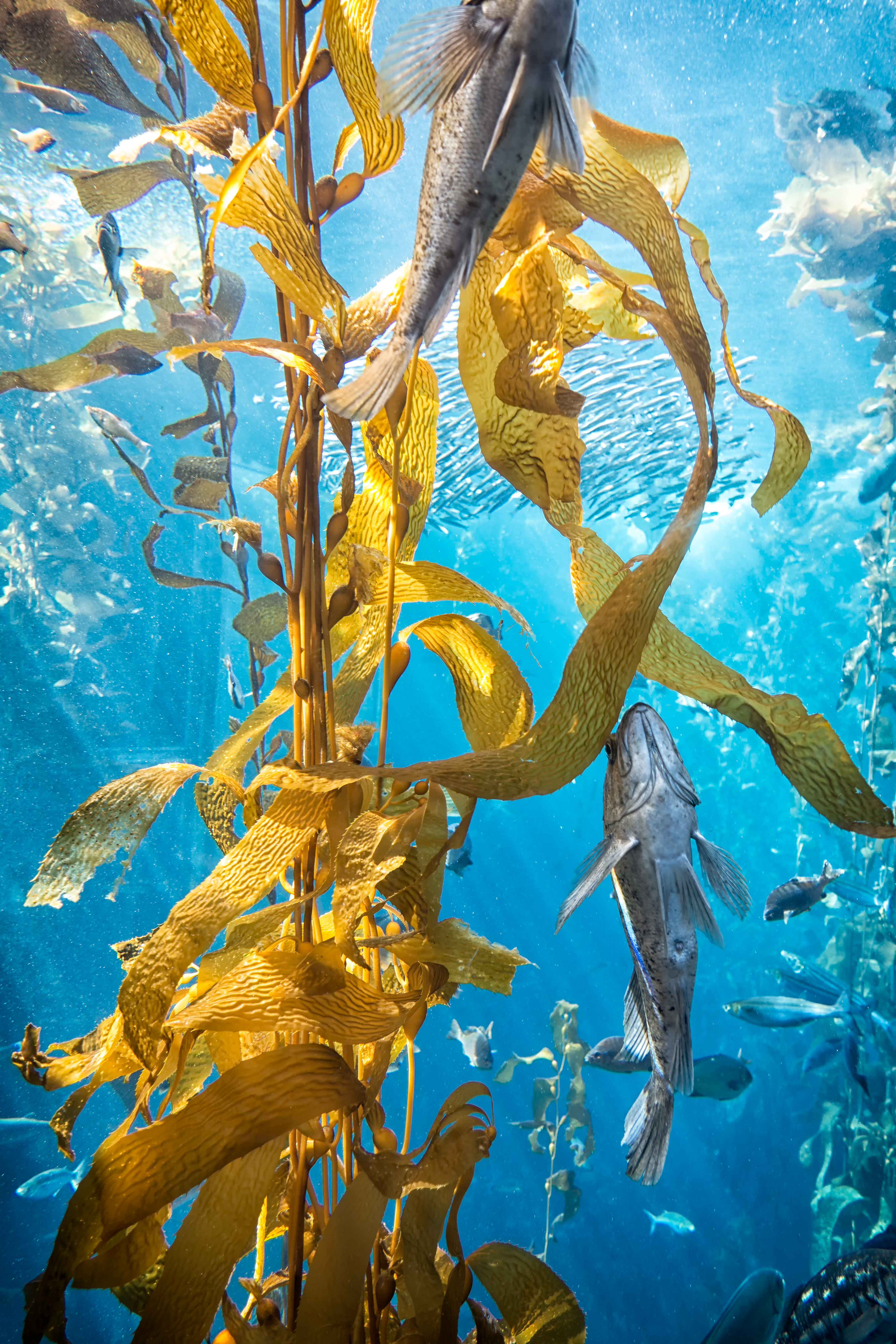 Glowing Kelp Forest